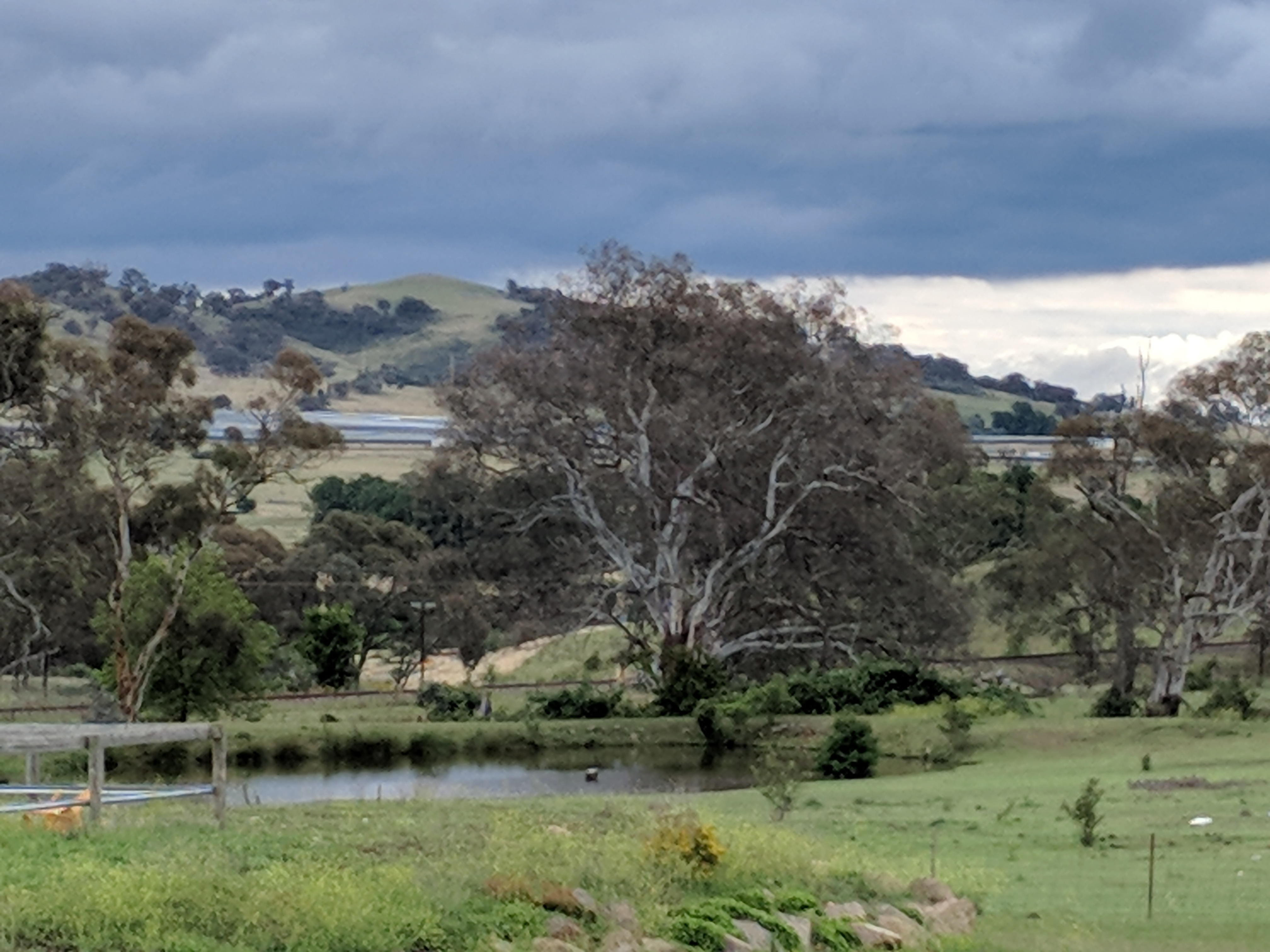 Royalla with solar farm in background